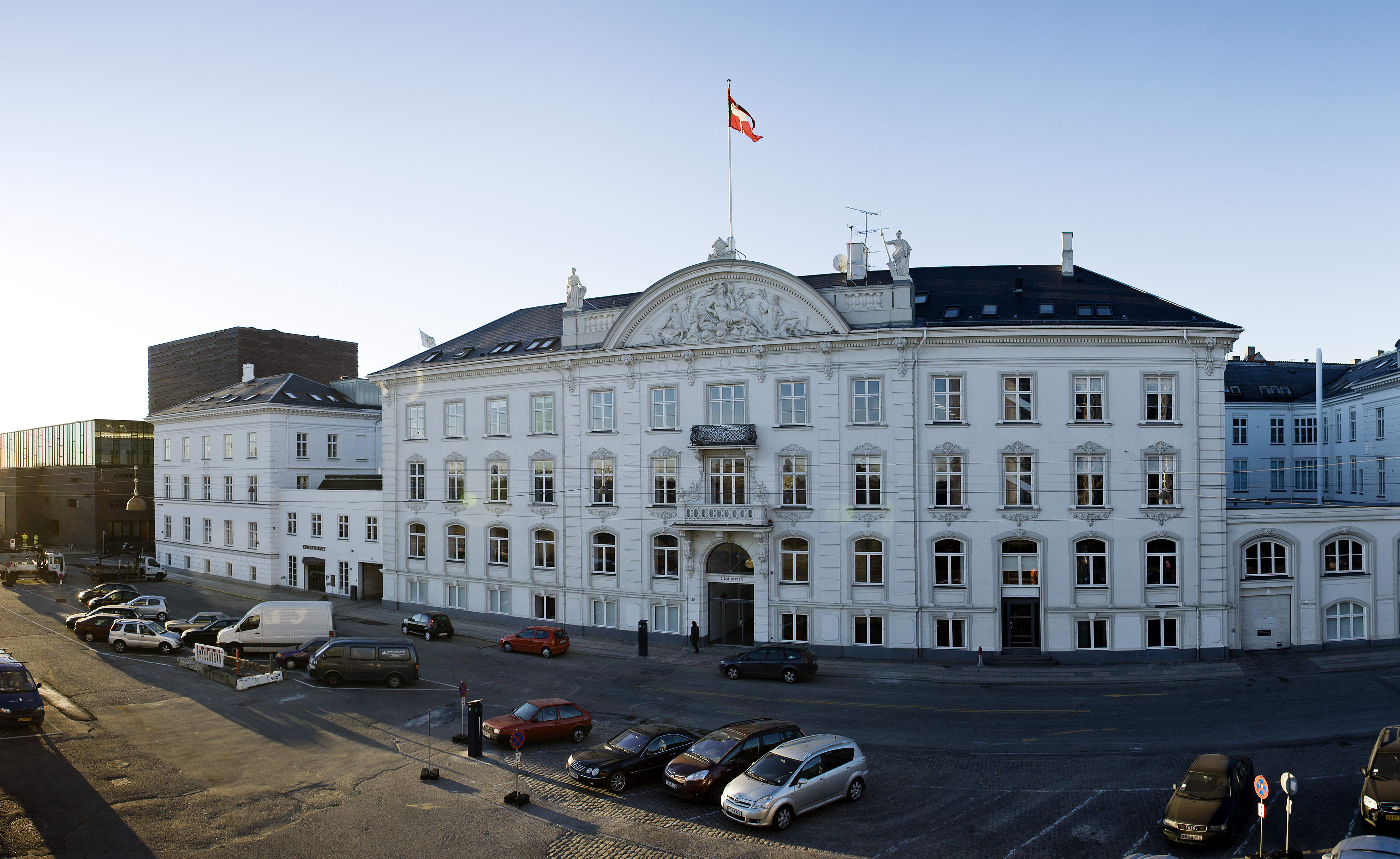 J. Lauritzen's headquarter in Copenhagen